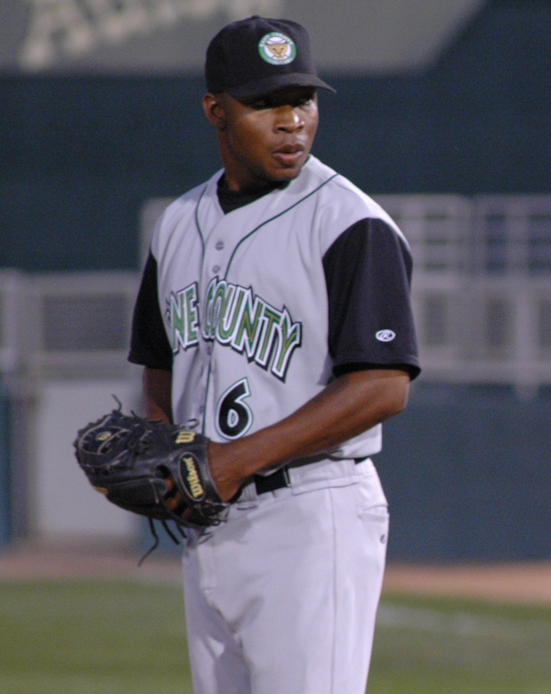 Marcus McBeth on the mound for the Kane County Cougars in 2005